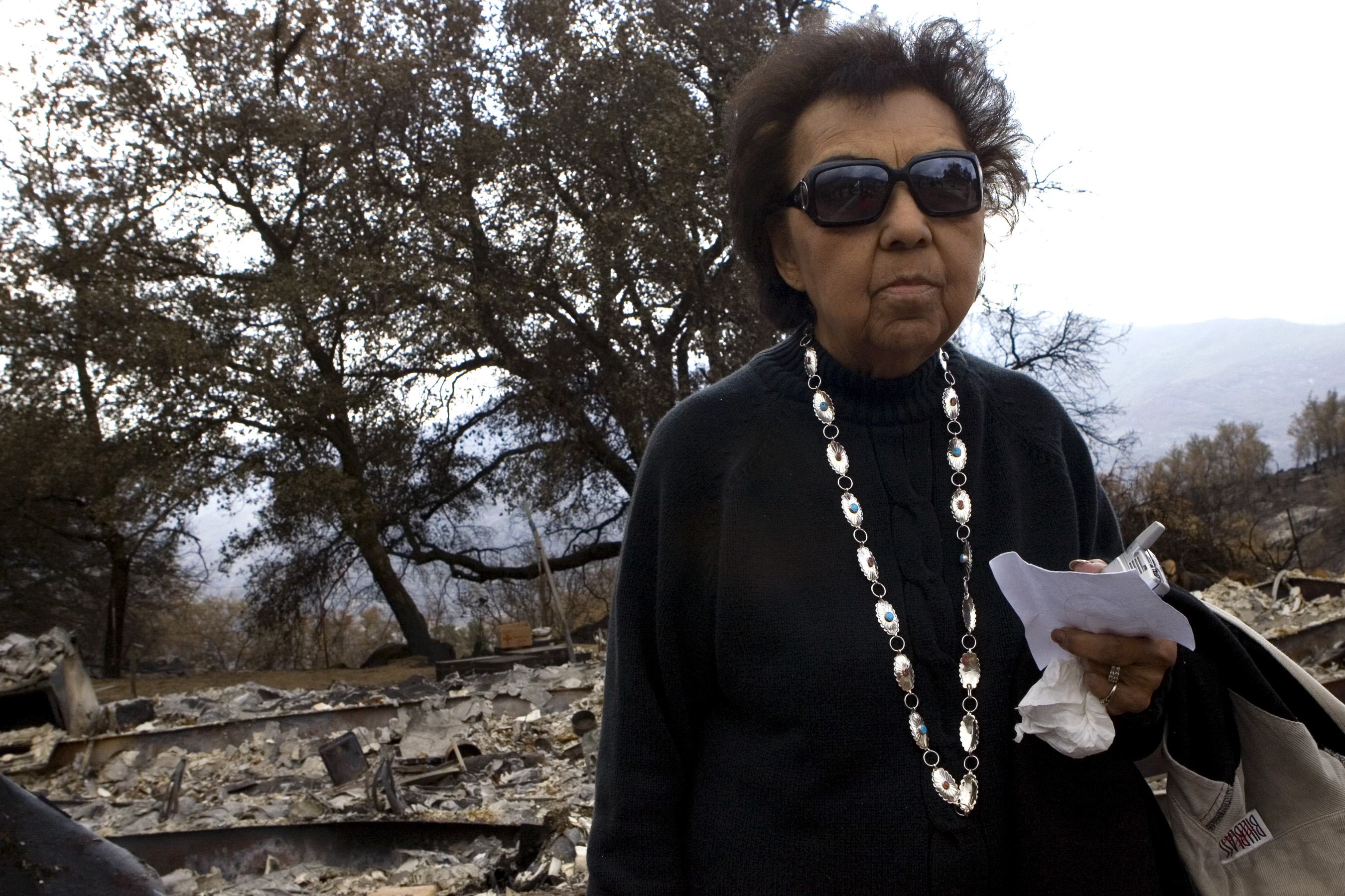 Pauma, CA, November 10, 2007 -- La Jolla Indian Reservation, Viola Peck, Tribal Elder, stands in front of what is left of her home after the area was ravaged by the Southern California wildfires. 92% of the La Jolla Indian Reservation was destroyed by the fires. This is the site of a joint FEMA/BAER (Burned Area Emergency Response) press conference on the actions being taken by both groups to mitigate further damage and erosion by the winter rains. Susie Shapira/FEMA